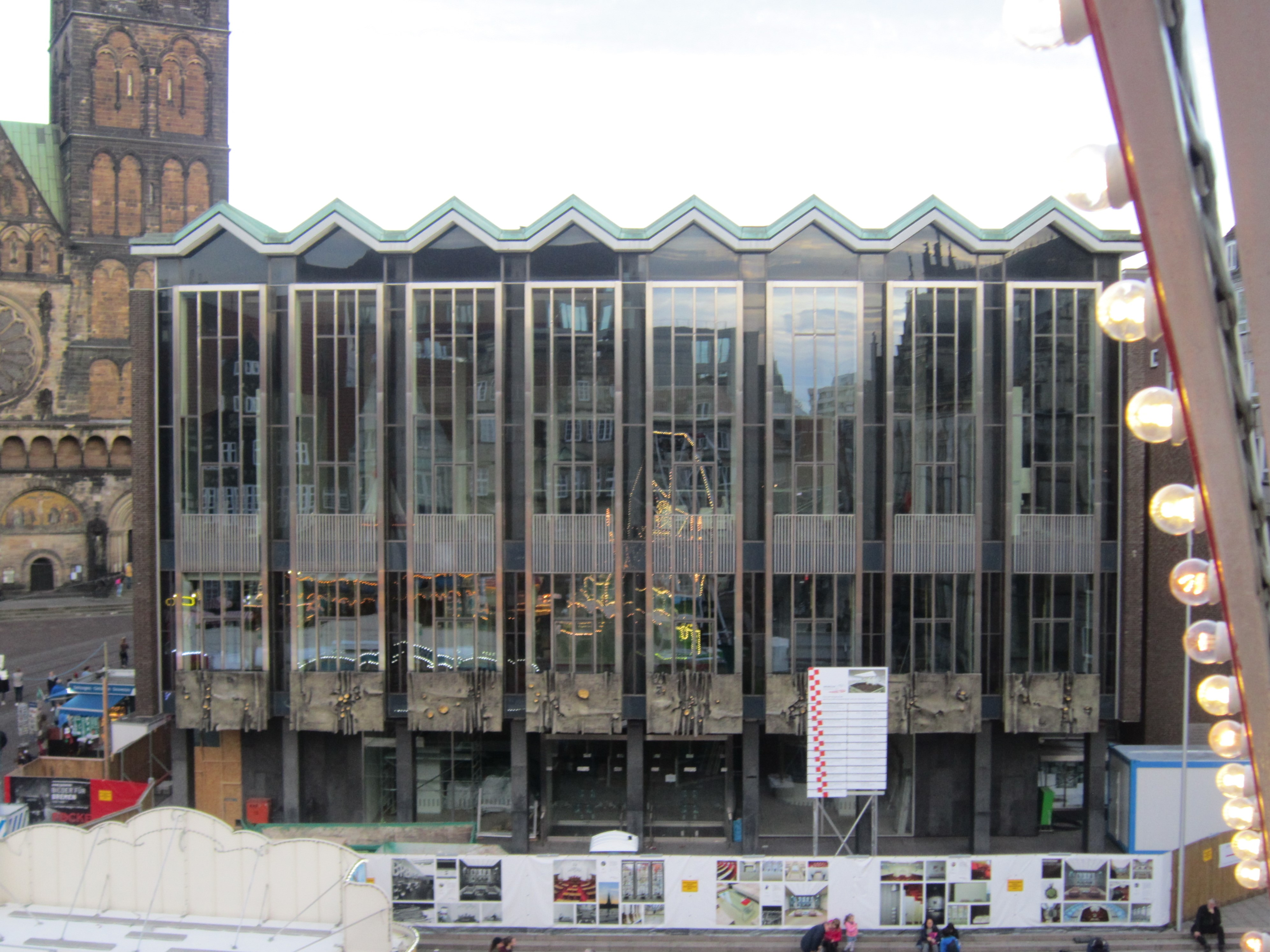 View from the Ferris wheel on "Kleiner Freimarkt" 2019 in Bremen to the "Bremische Bürgerschaft" (Parliament of Bremen State)